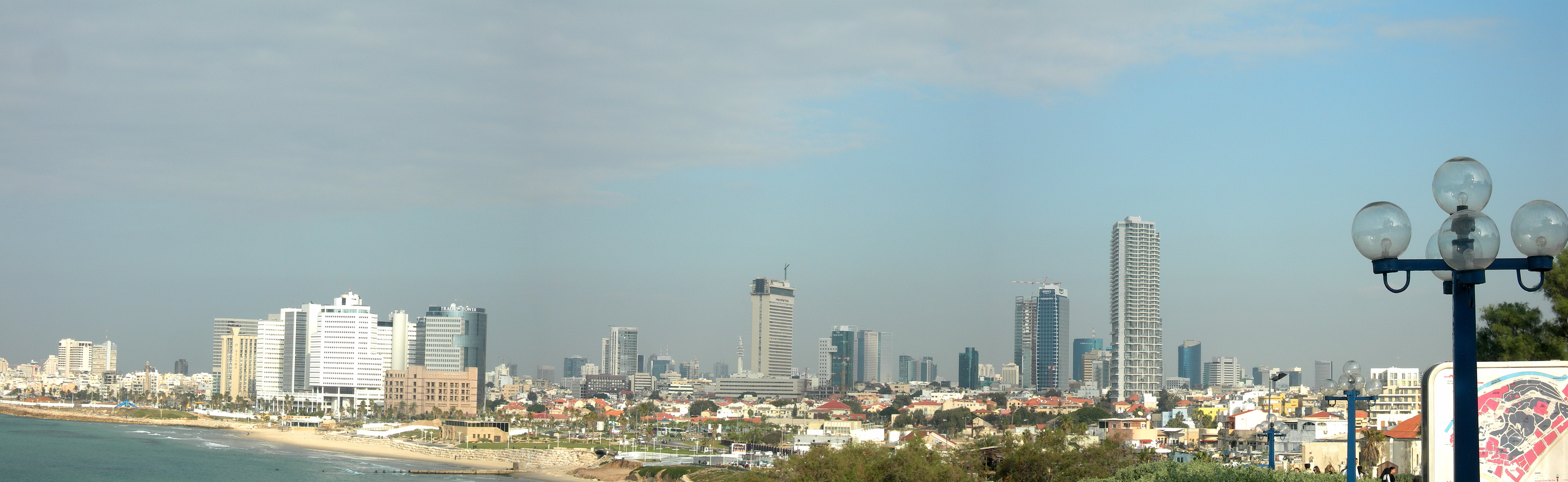 Panorama of Tel Aviv from Yaffo